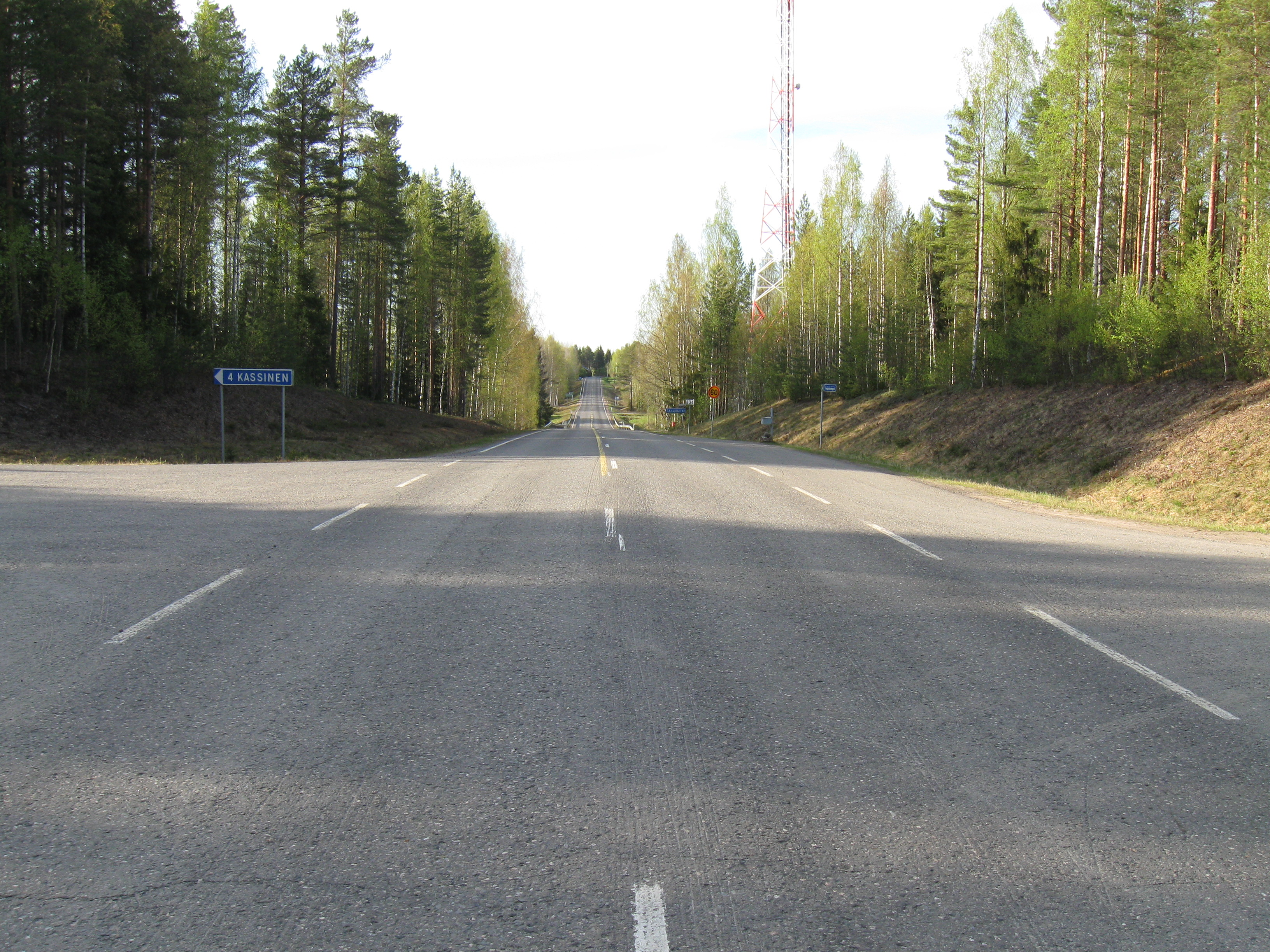 The Sanginjoki village in Muhos, Finland, seen towards North at the crossing of the regional road 834 and roads to Pirttijärvi (right) and Kassinen (left).